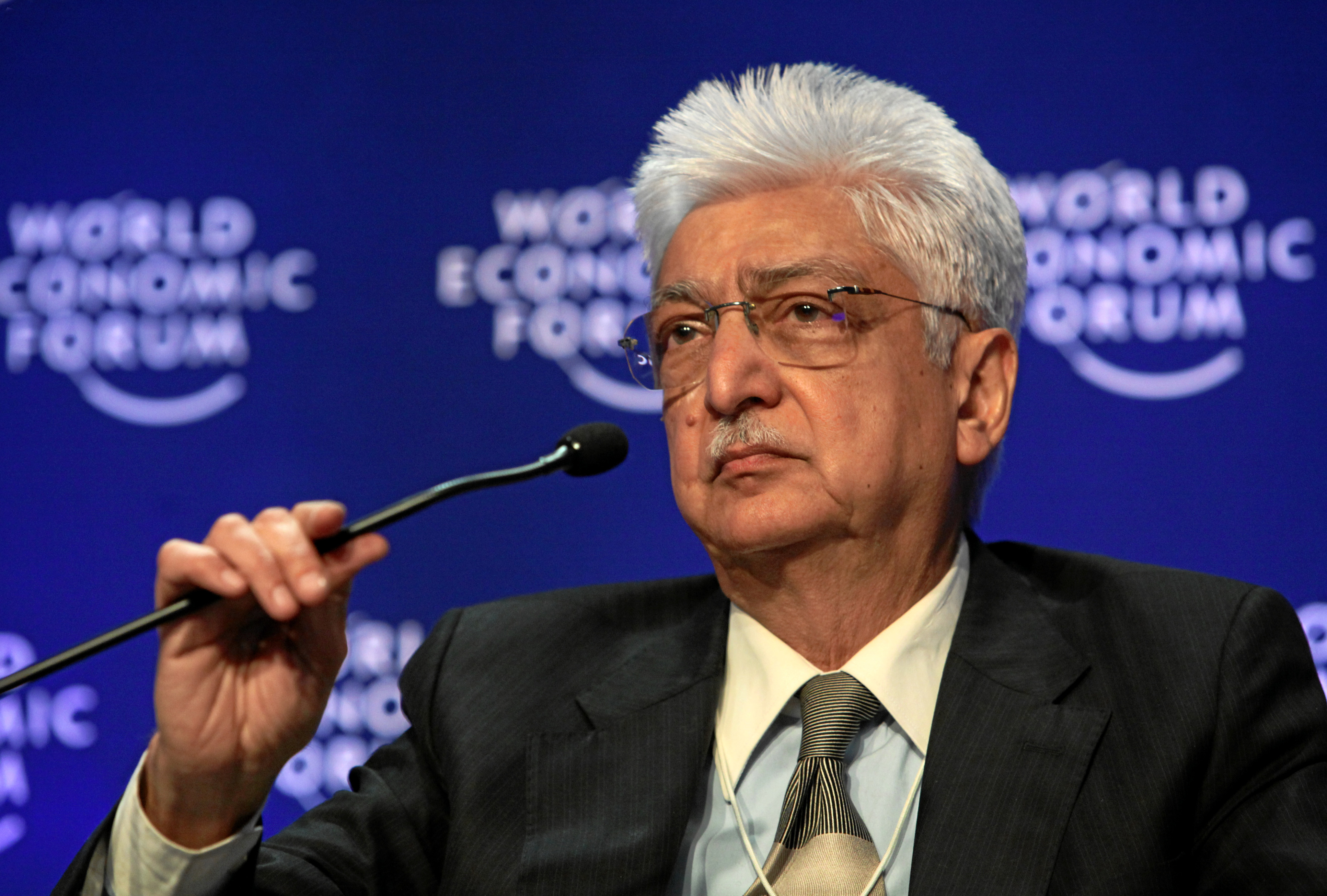 Azim Premji, chairman of Wipro, India, at the Annual Meeting 2009 of the World Economic Forum in Davos, Switzerland, January 31, 2009.